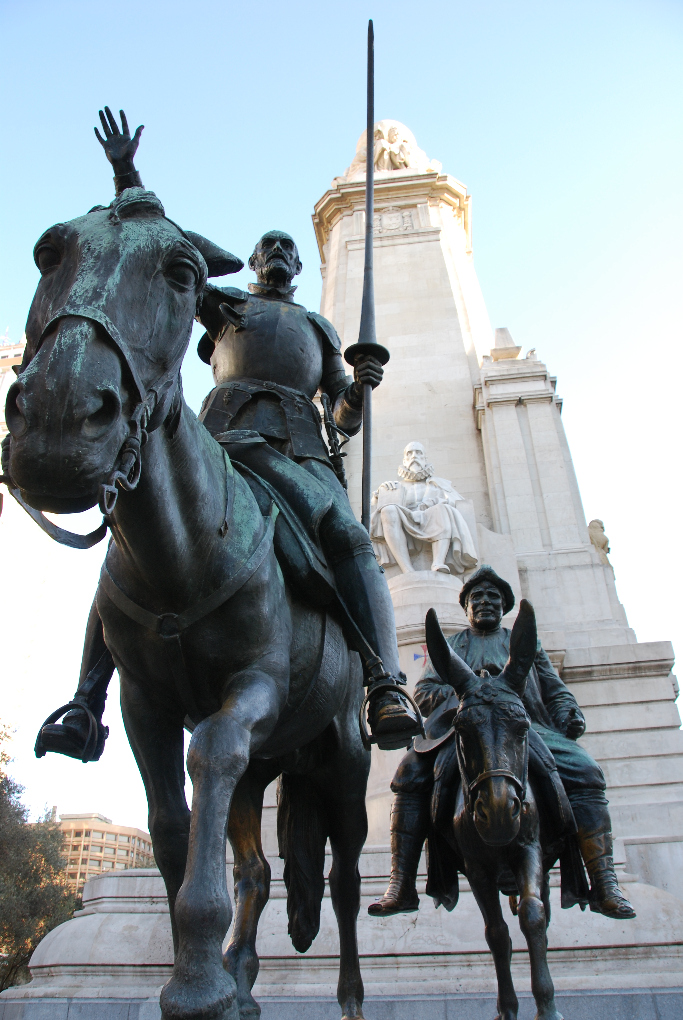 Statues of Don Quixote and Sancho Panza.